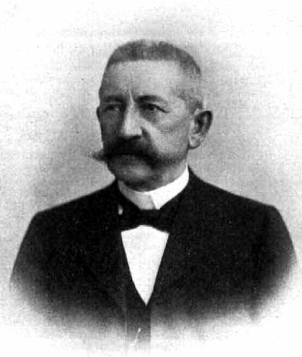 German Architect Carl Johann Zimmermann vel Hans Zimmermann (1831-1911). As stated in his biography by D.M. Pikulska, which also includes this picture, the photo must was taken about the year 1880.